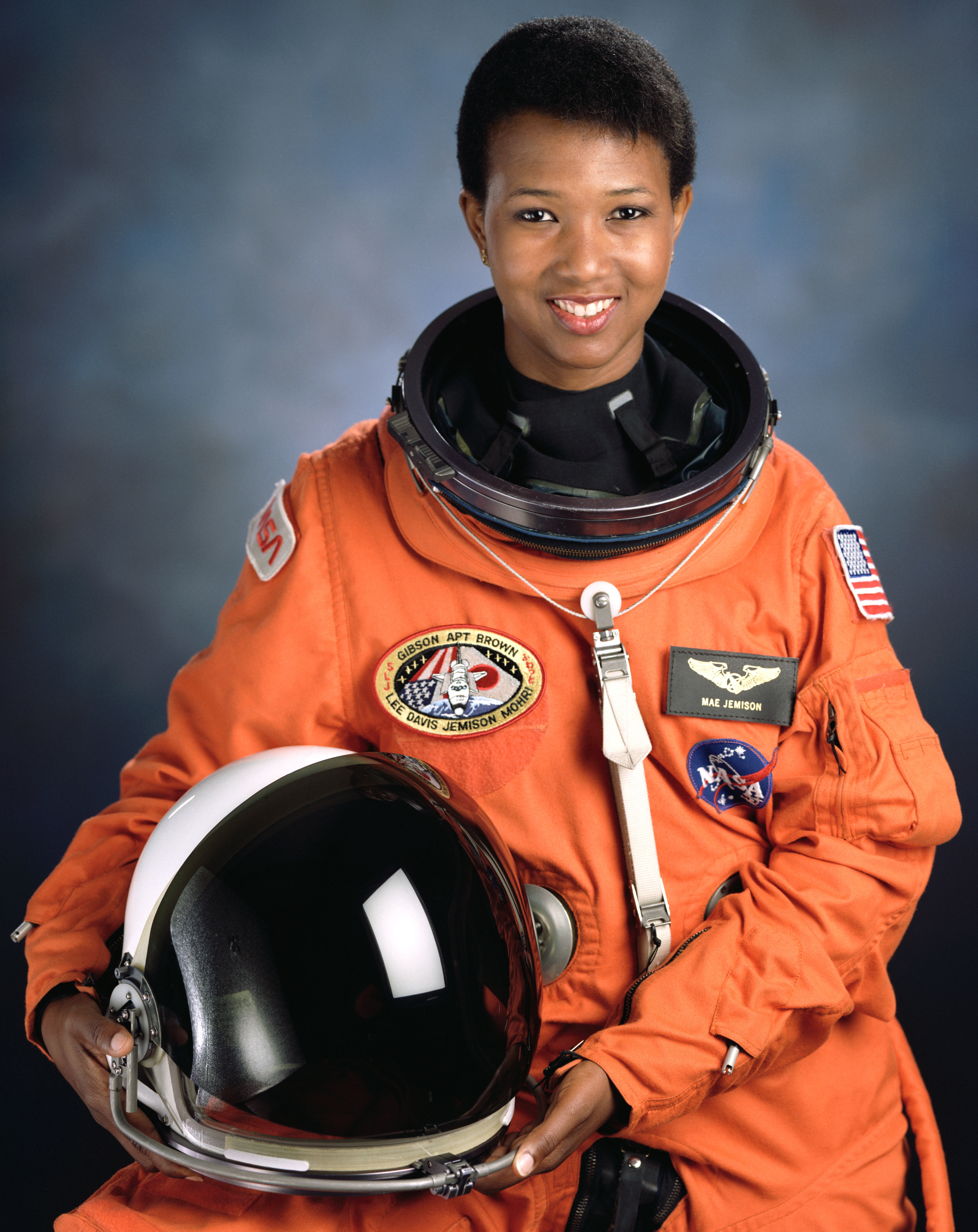 Mae Carol Jemison (born October 17, 1956) is an American engineer, physician and NASA astronaut. She became the first black woman to travel in space when she served as an astronaut aboard the Space Shuttle Endeavour.